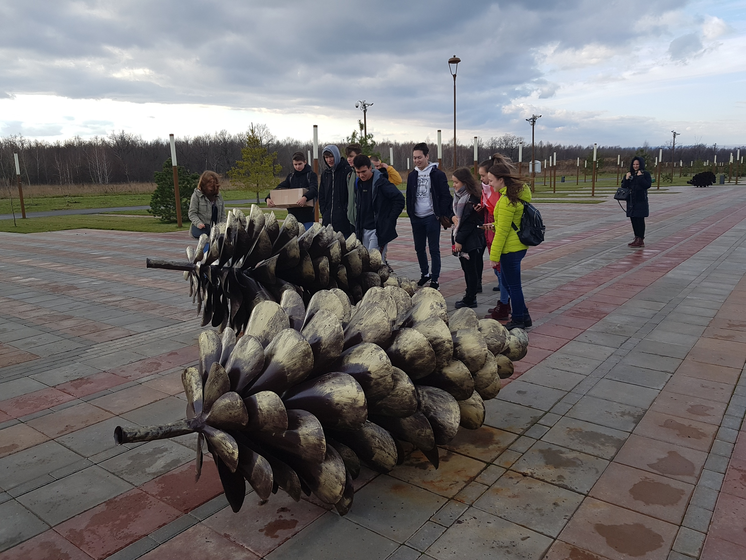 Татарча/tatarça: Moment of wikiexpedition of young Tatar language wikimedians - students of Selet WikiSchool